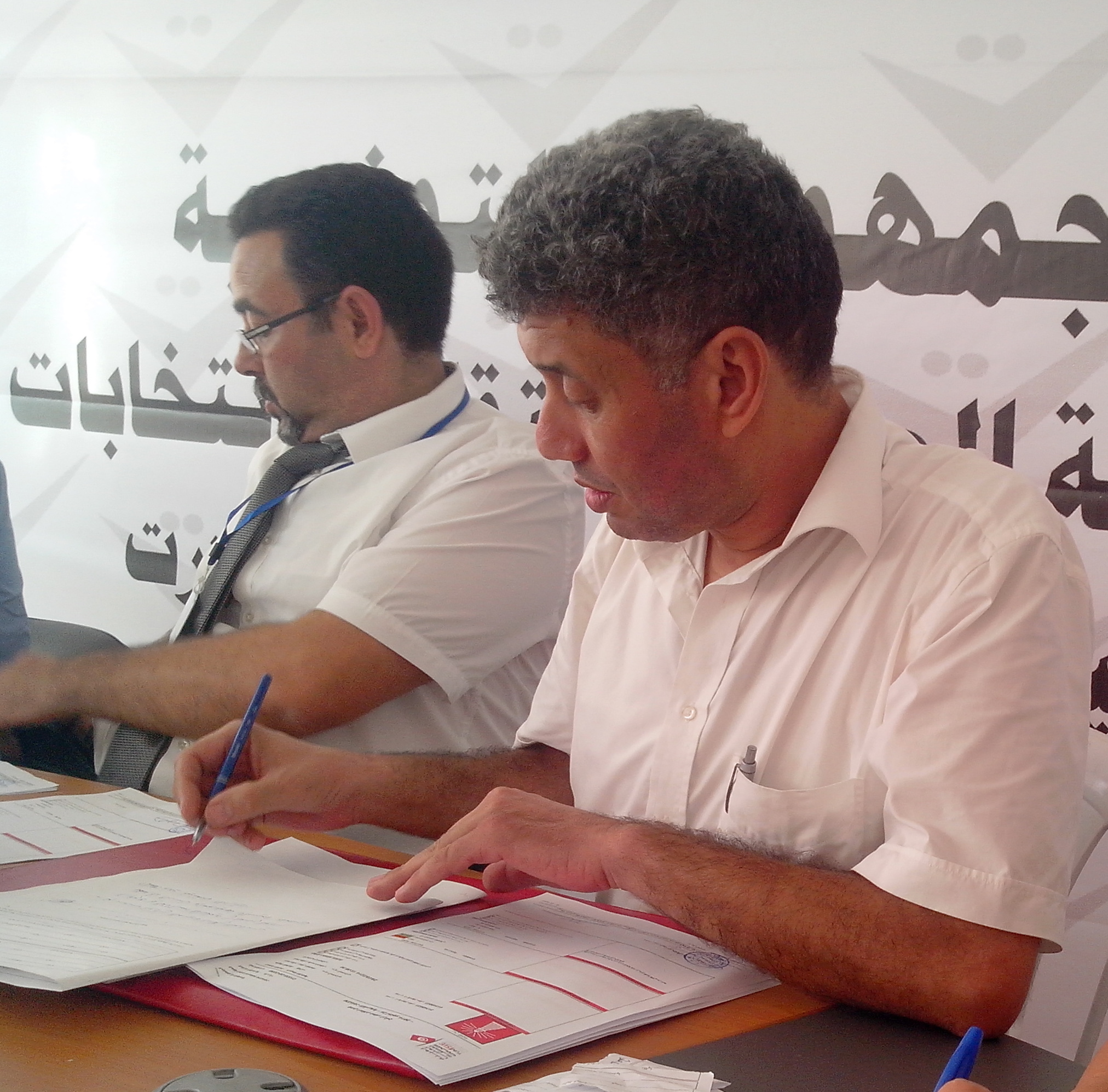 Mourad Amdouni went on 29 08 2014 to ISIE Bizerte to presente his list nomination for the legislative election